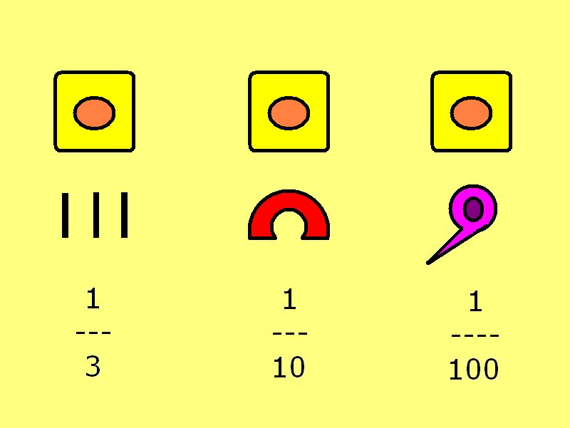 Image representing symbols used in the Ancient Egypt to create the fractions